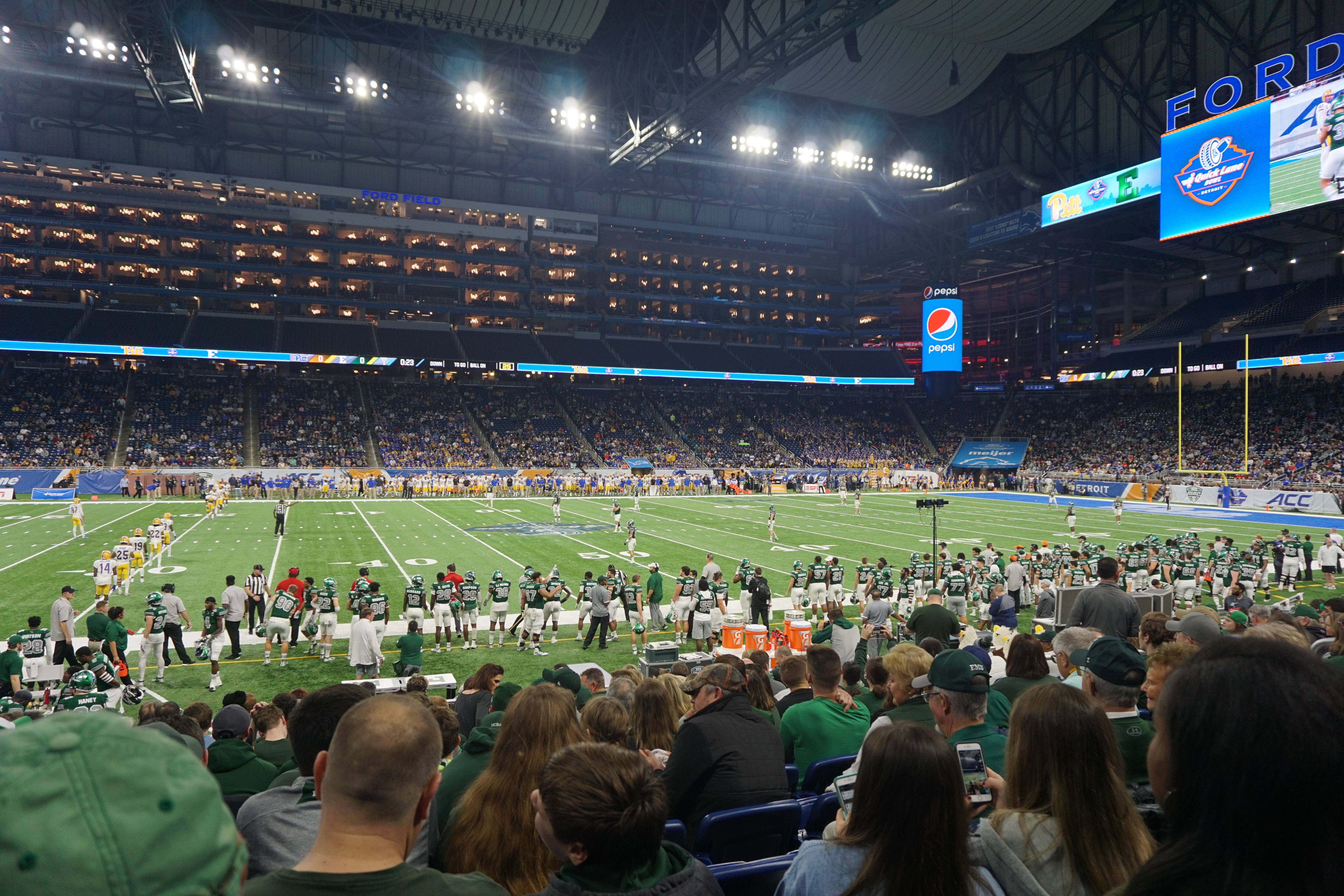 The opening kickoff of the 2019 Quick Lane Bowl (Pittsburgh Panthers vs. Eastern Michigan Eagles) at Ford Field in Detroit, Michigan (United States). Pittsburgh won 34–30.